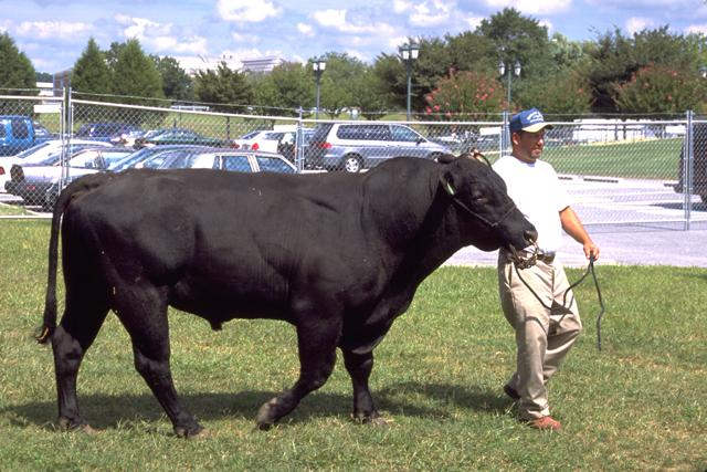 Angus cattle 17 from Angus cattle 17 thumbnail Image Number: 01cs1262 CD3945-066 Showing angus bull at the Prince George?s County fair. USDA Photo by: Bill Tarpenning